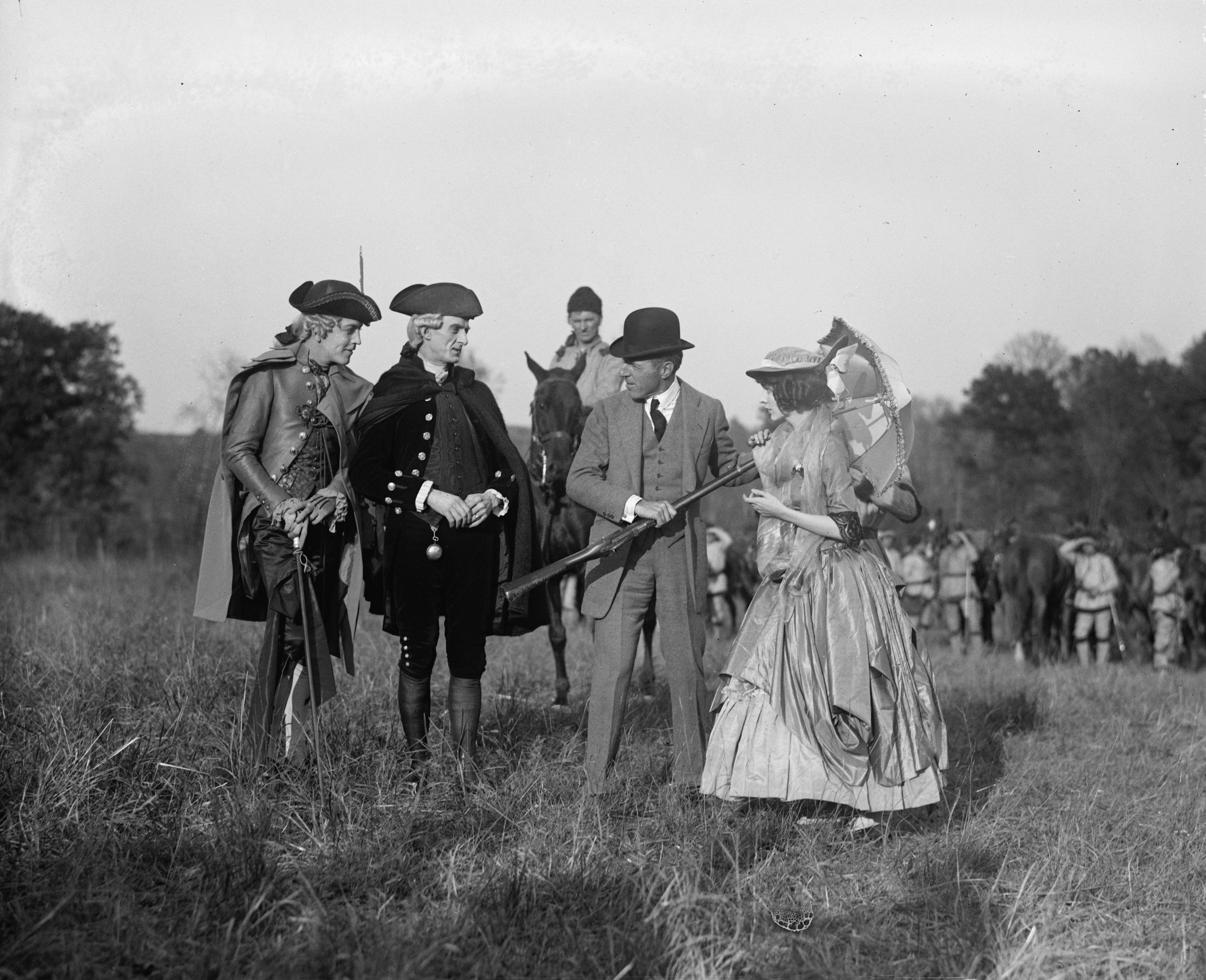 Title: D.W. Griffith on location, 10/31/23 Abstract/medium: National Photo Company Collection (Library of Congress) Physical description: 1 negative